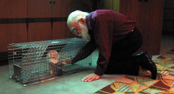 James Randi from JREF sets the "Chupacabra" trap with a James Randi lookalike. Photo taken during the JREF Amazing Adventure 4 ~ Chasing El Chupacabra.